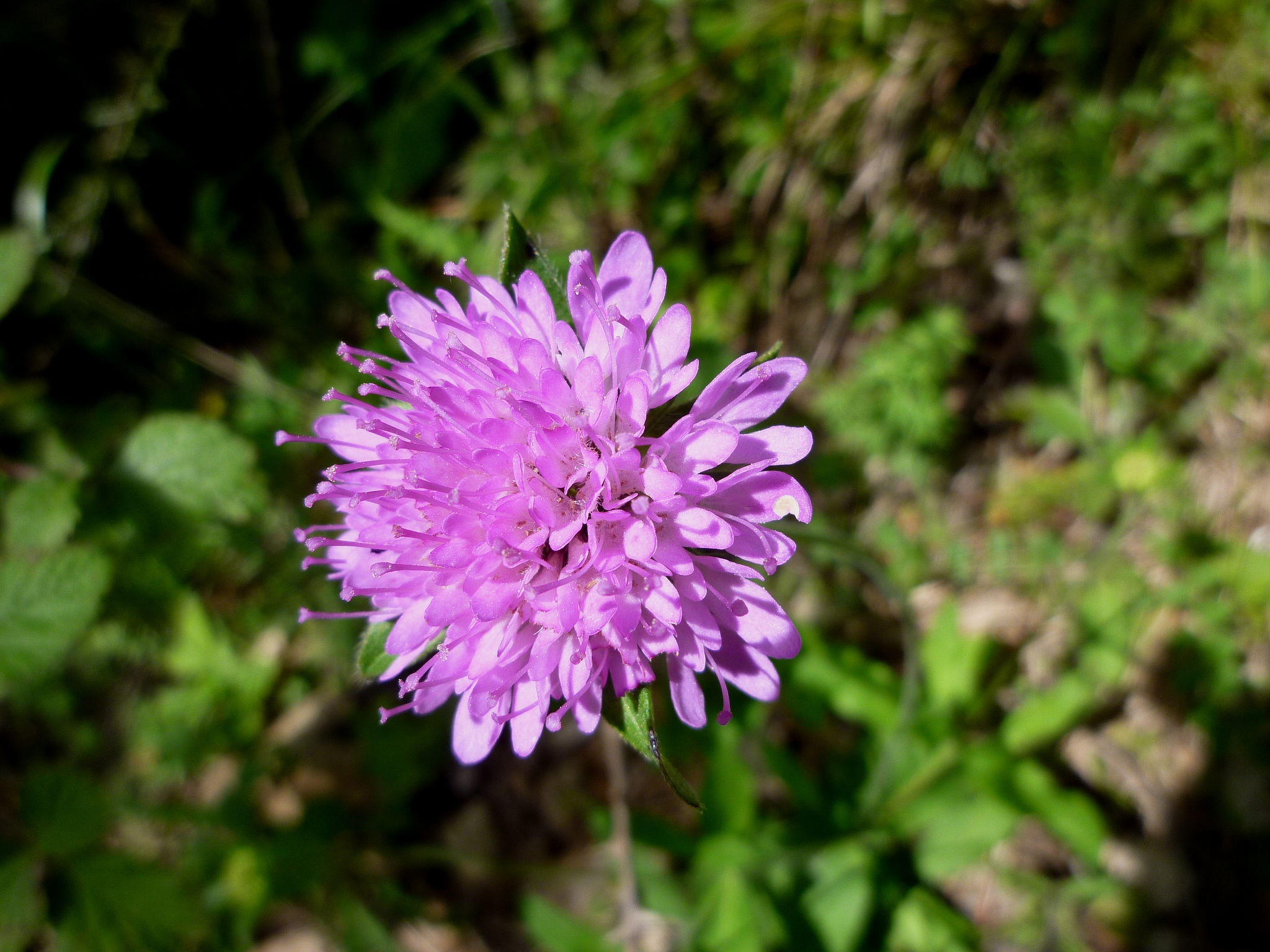 Scabiosa columbaria. In Guixers (Solsonès - Catalunya), to 850 m. altitude